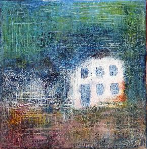 A painting by Russian artist Mikhail Evstafiev